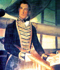 Almirante Guillermo Brown